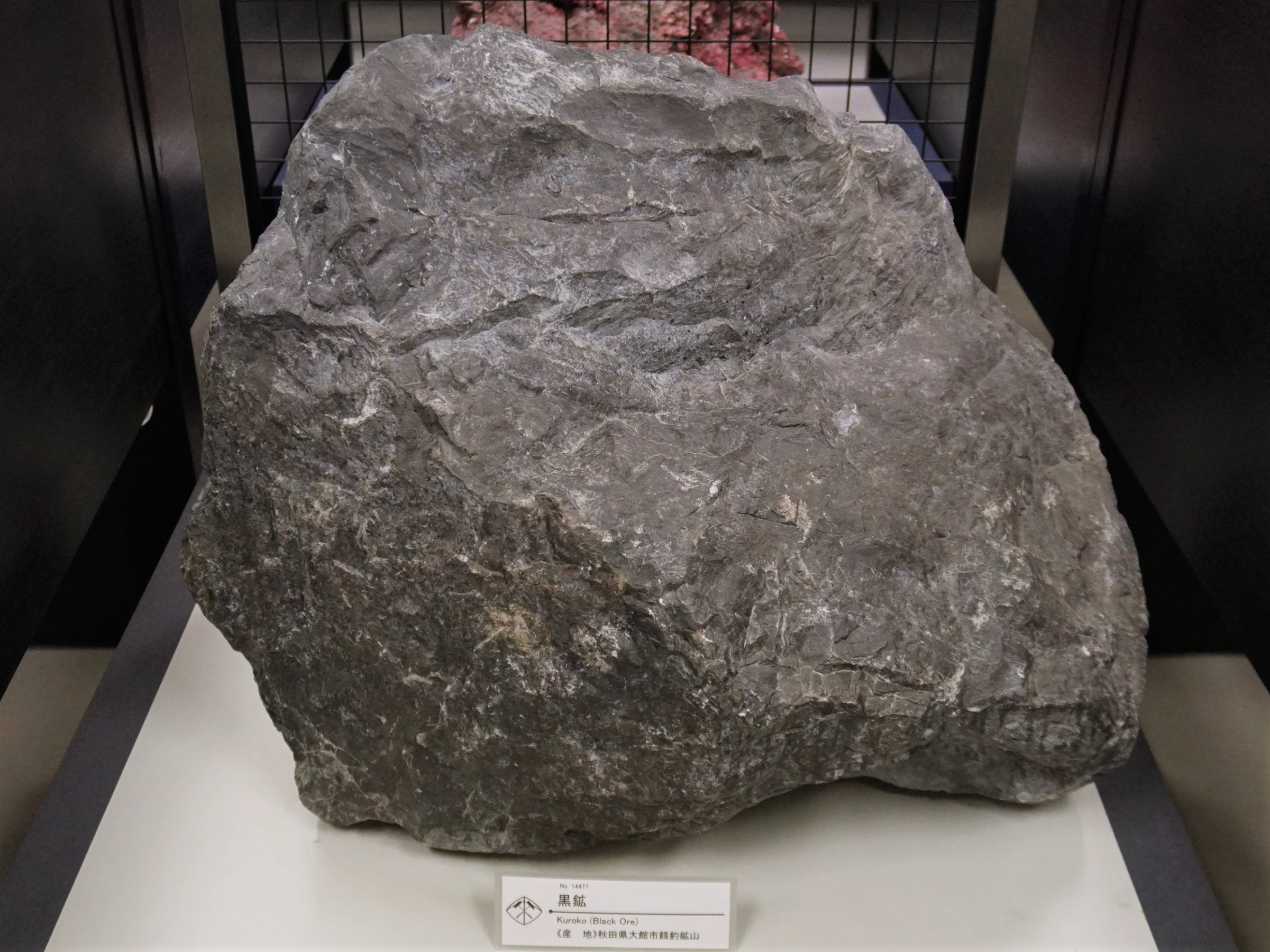 Black ore (Kurokō, "黒鉱") displayed at the Mining Musium of Akita University